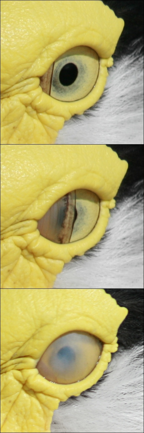 The blinking eye of a Masked Lapwing in Cairns, Queensland, Australia. The nictitating membrane closes from only one side, and is translucent. The eyelids themselves do not close during blinking, but do so for sleep.